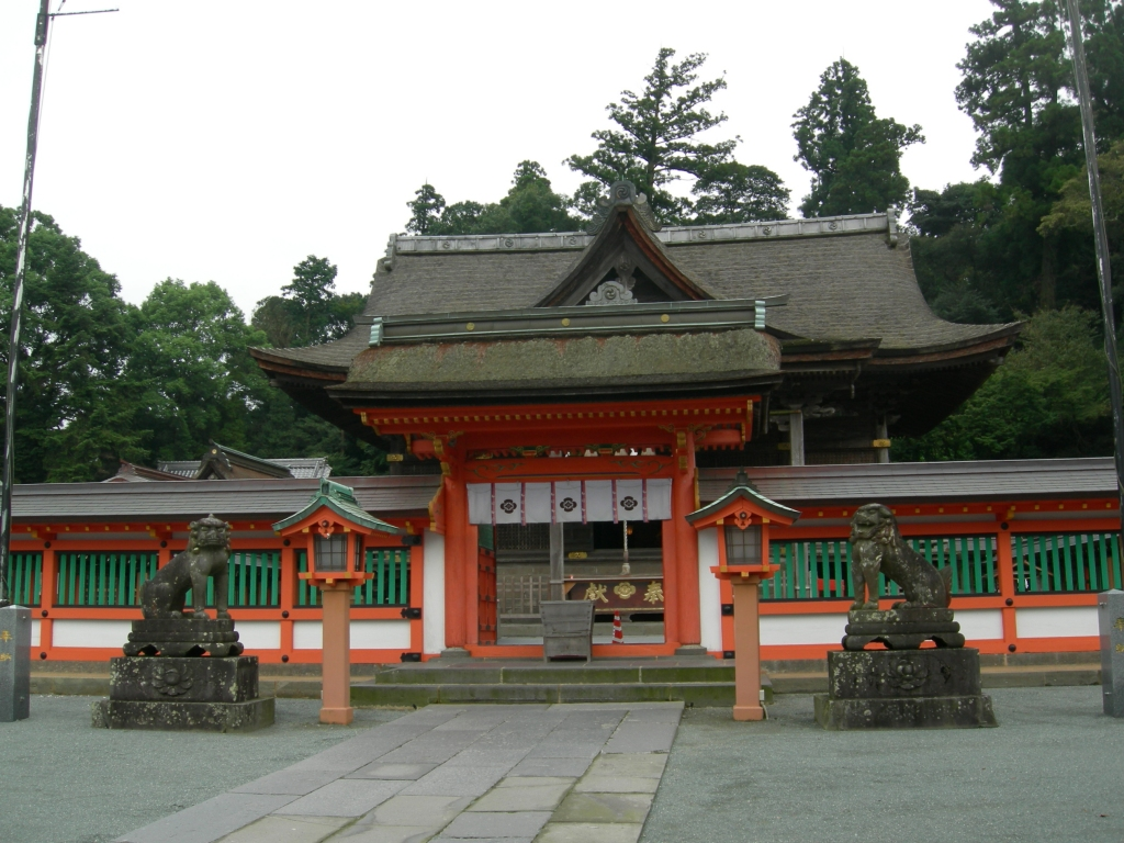 Front shrine, Koura-taisha